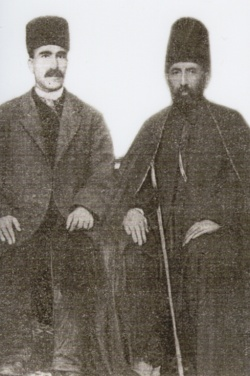 Famous Azerbaijani poet and teacher Hasan Karadagli (1848-1929) and scientist Mir Mohsun Navvab (1833-1918)